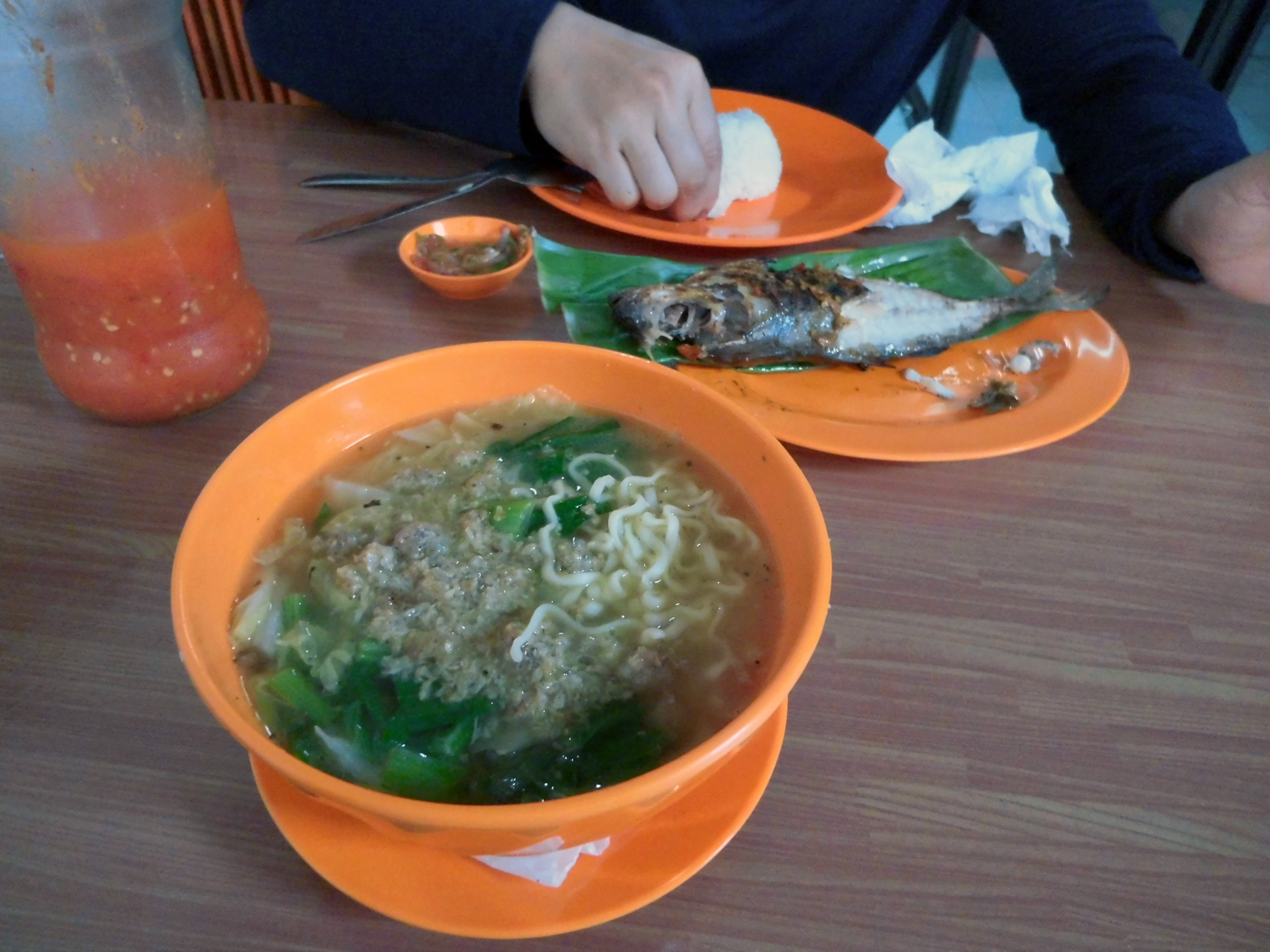 Mie Cakalang, noodle soup with skipjack tuna, and ikan tude rica-rica, mackerel in spicy rica-rica sauce. Delicacy of Manado cuisine, North Sulawesi, Indonesia.